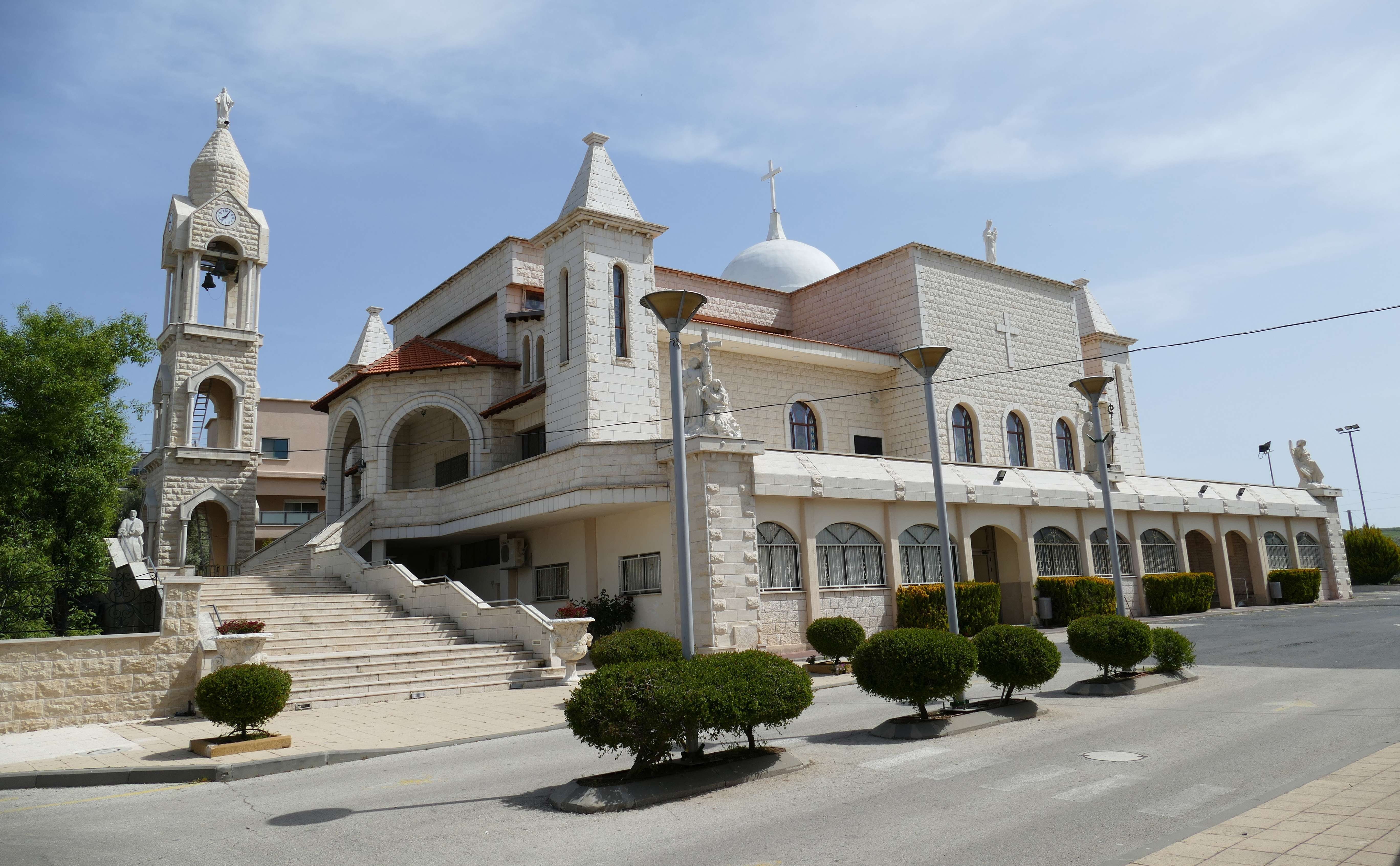 Jish (Gush Halav), Israel.